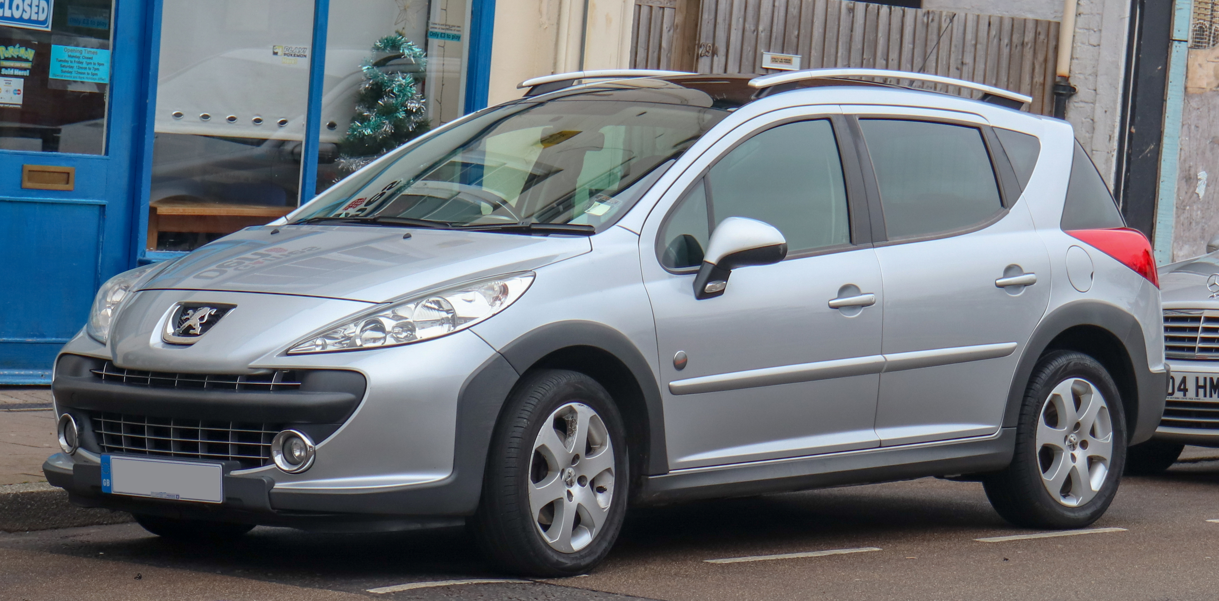 2008 Peugeot 207 SW Outdoor 90 1.6 Front Taken in Leamington Spa